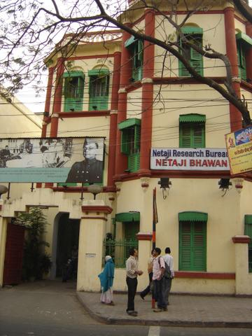 Netaji House at Kolkatta. The house from where Netaji Escaped